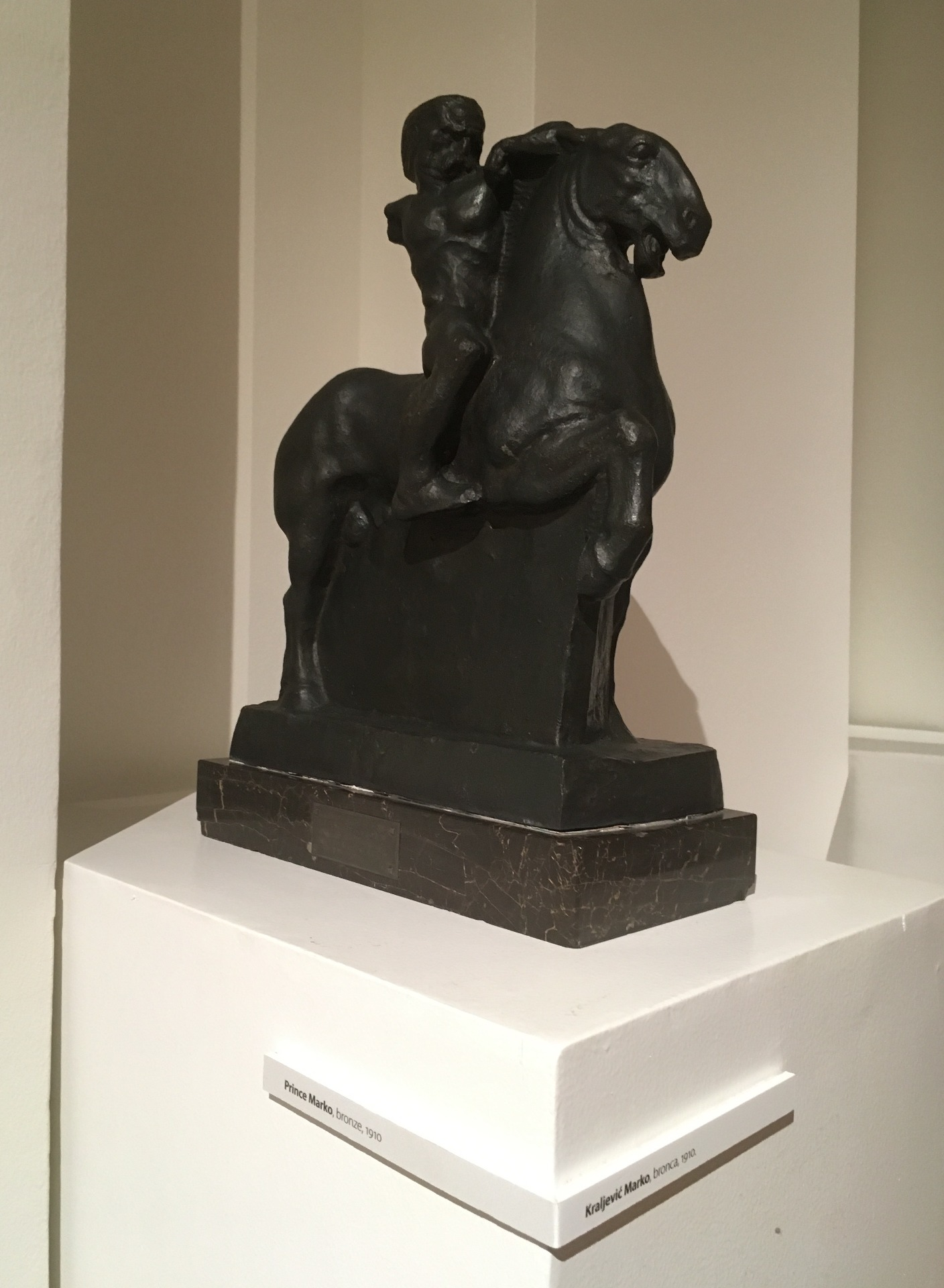 Ivan Meštrović - Kraljević Marko, 1910